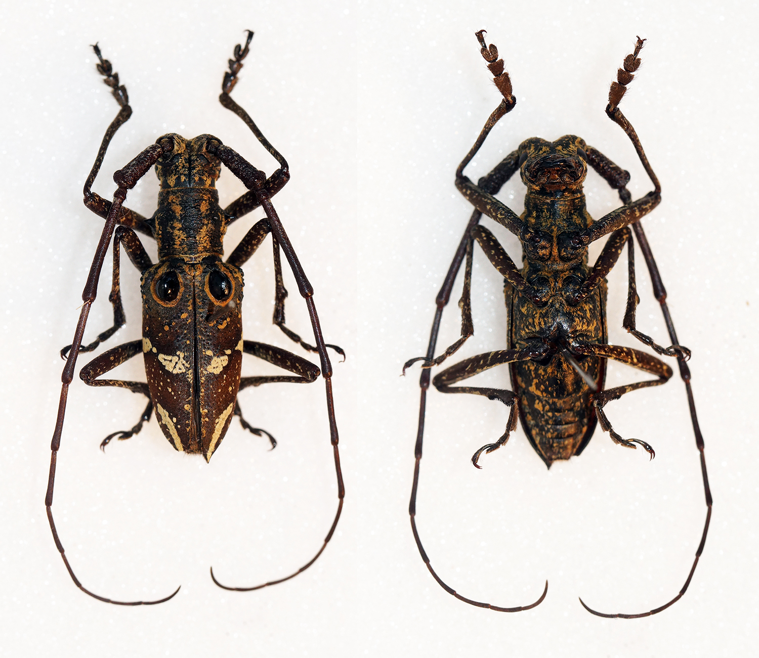 Pic,1917 Sex: Male Data: 29-04-93 - Tam Dao 1600m - North Vietnam Size: 21.5mm